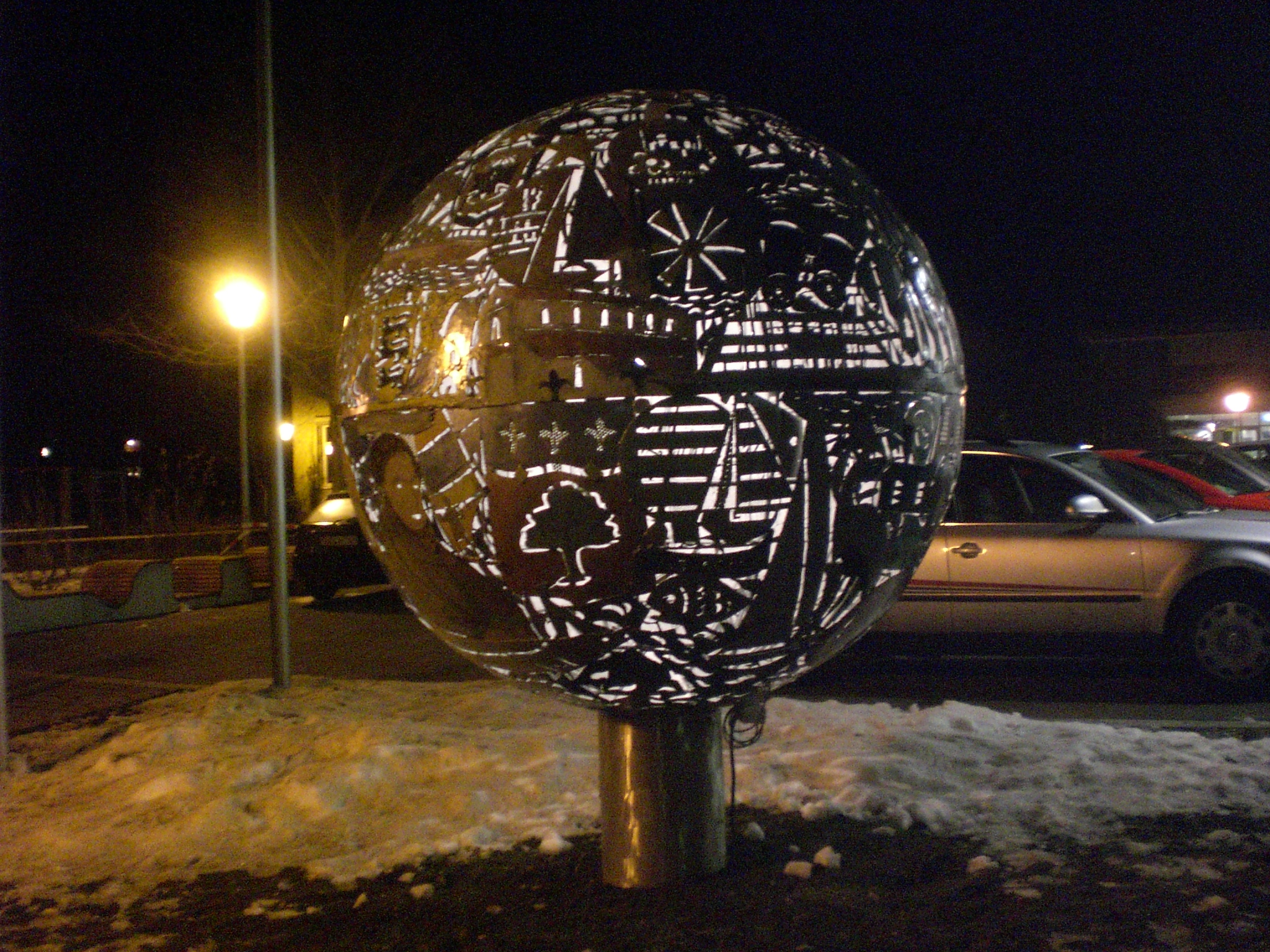 Metal sculpture by Mirko Siakkou-Flodin in Langenargen, Germany.